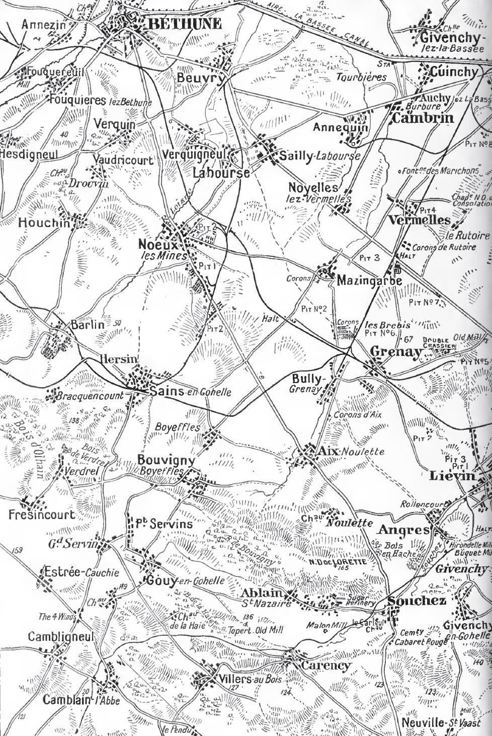 Map of the Artois area (west) 1915